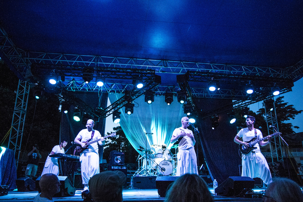 Profusion @ Crescendo Festival (2015, France)